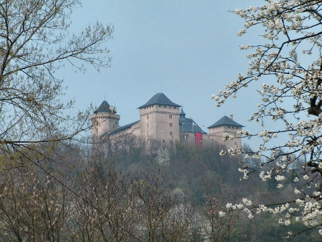 Castle of Malbrouk, Manderen, France